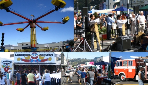 Scenes from the 2006 Petone Rotary Fair, held 18 February. Wellington, New Zealand.